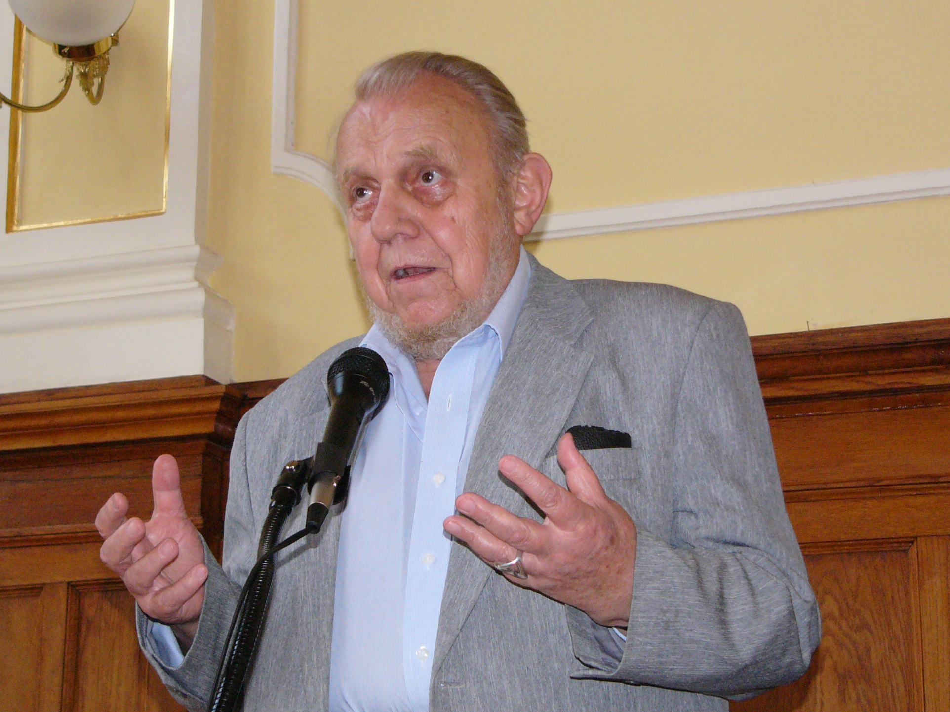 photo of Czech philosopher Erazim Kohák